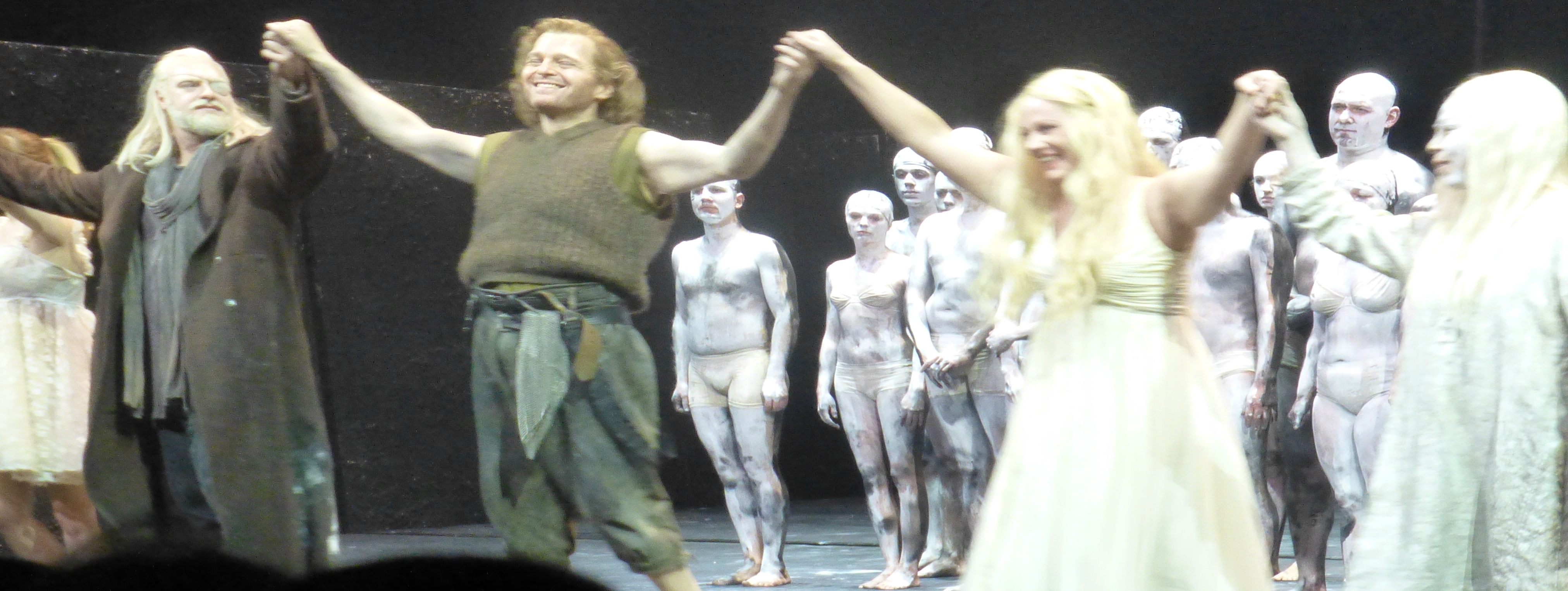 Closing bows following Wagner's opera Siegfried at the Bavarian State Opera. Left to right: Wotan, Siegfried, Brünnhilde, Erda